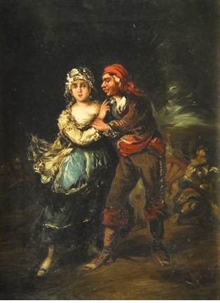 A Pair of Majos